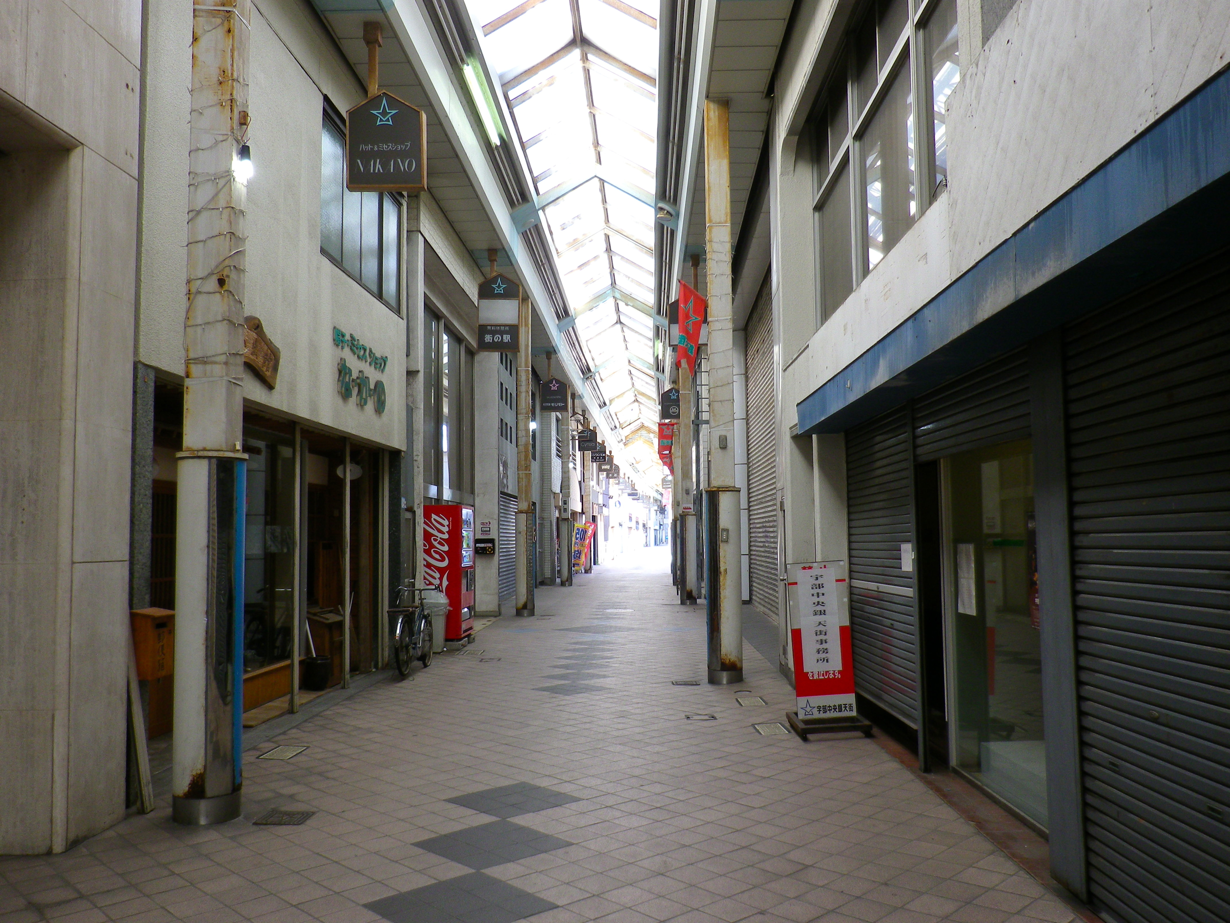 Ube Chuo Gintengai shopping arcade. Taken on 8 September 2011.